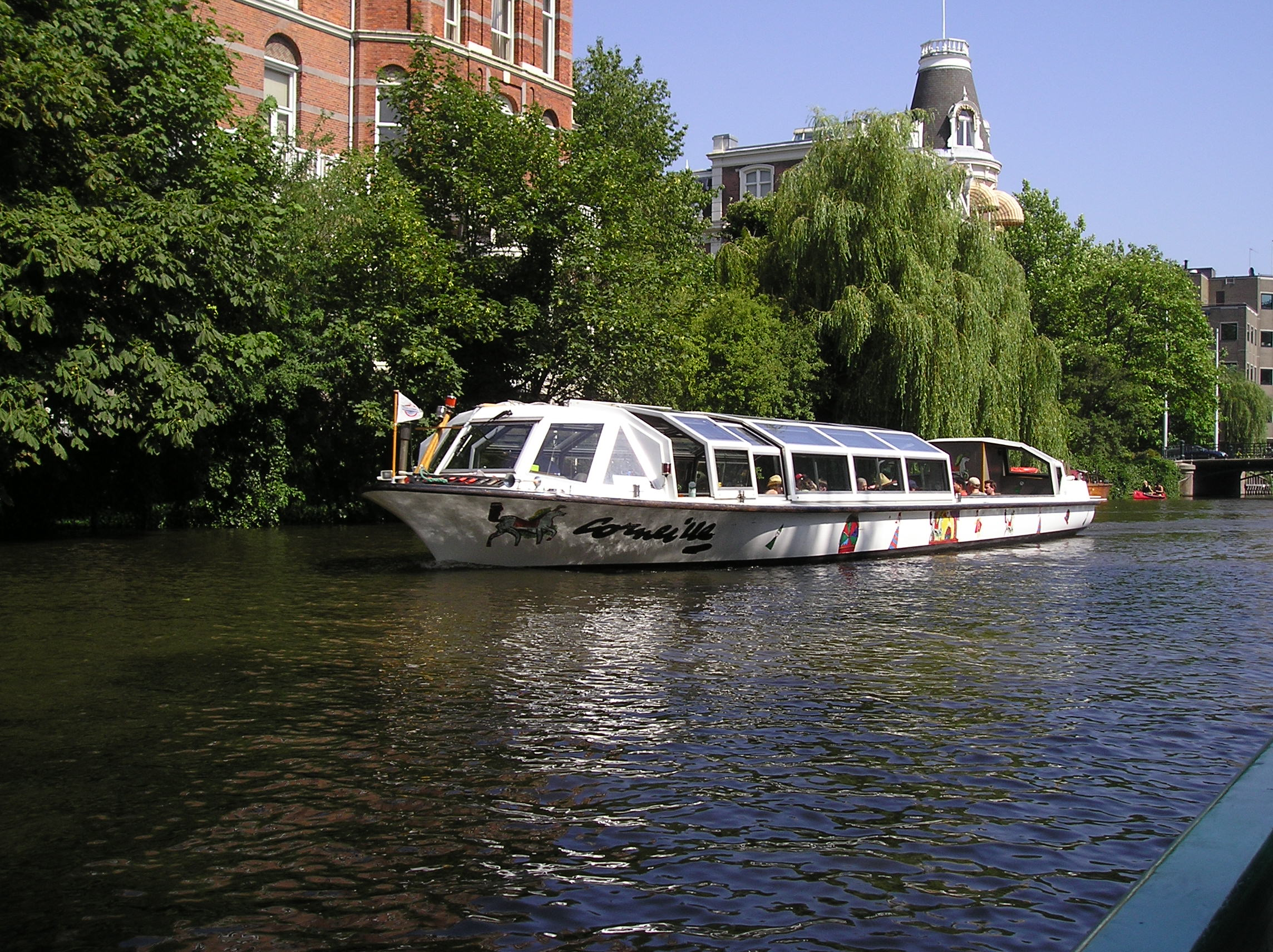 Tourists' boat in Amsterdam, near the State Musem.